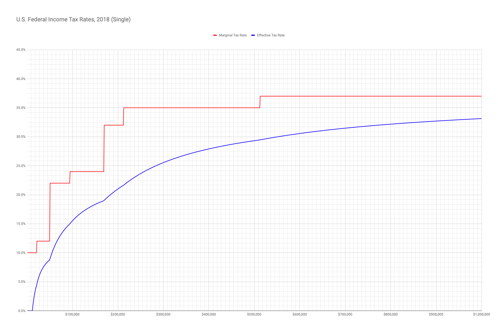 This graph shows the marginal and effective tax rate by income amount in 2018 USD.